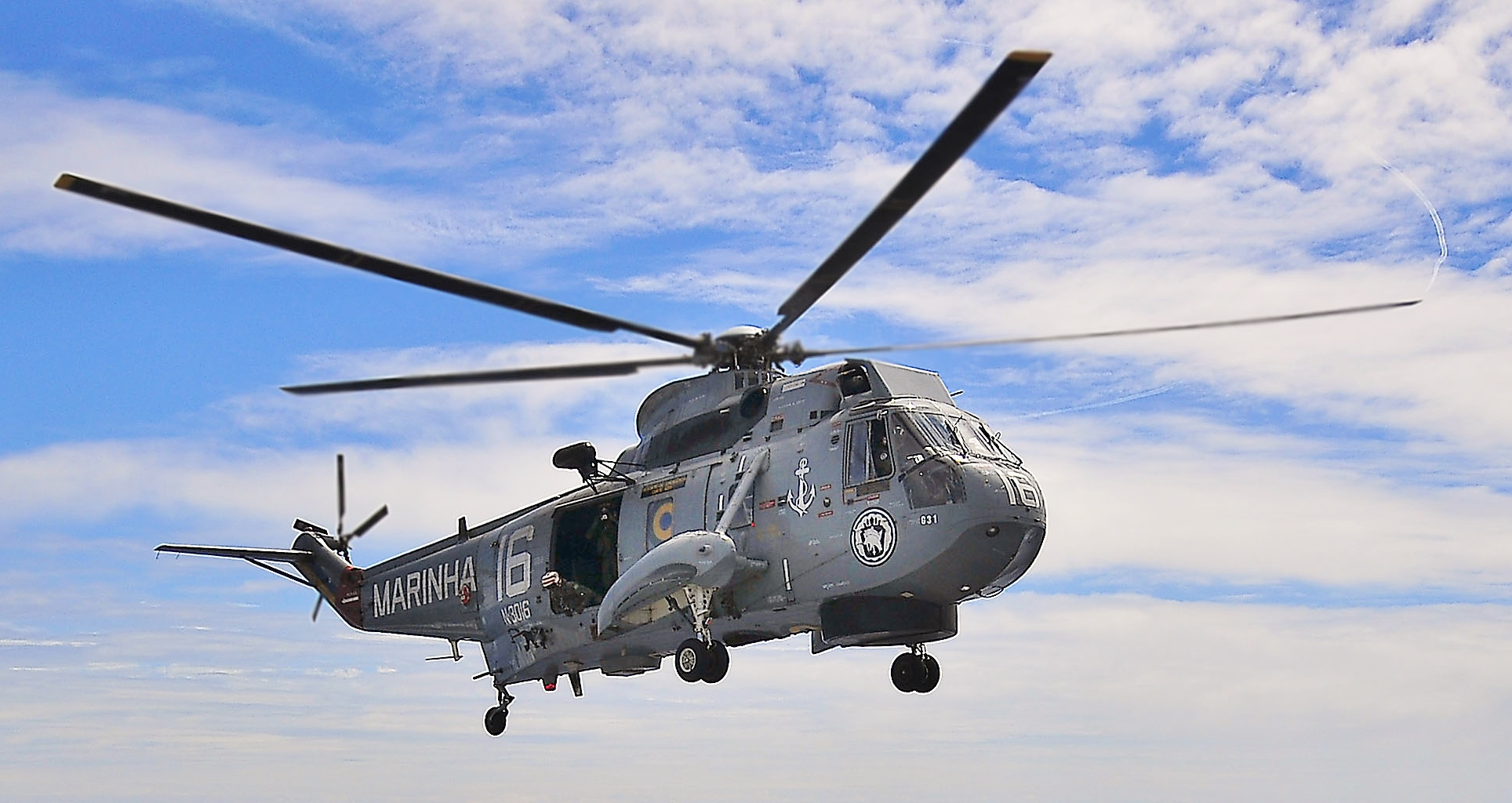 A Brazilian navy SH-3 Sea King helicopter approaches the guided-missile cruiser USS Bunker Hill during a joint maritime exercise with the US Navy. Bunker Hill and the aircraft carrier USS Carl Vinson are participating with the Brazilian Navy in Southern Seas 2010